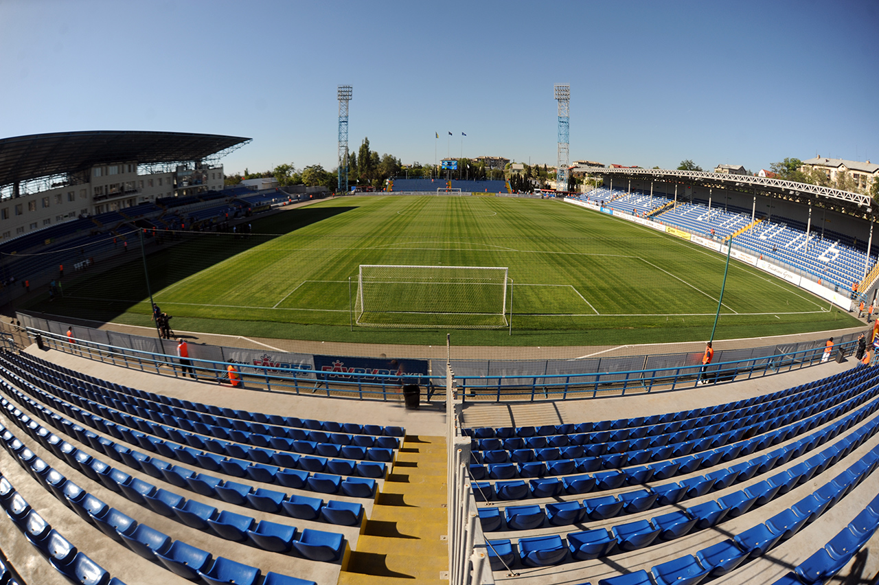 Sevastopol Sports Complex in Sevastopol, Ukraine